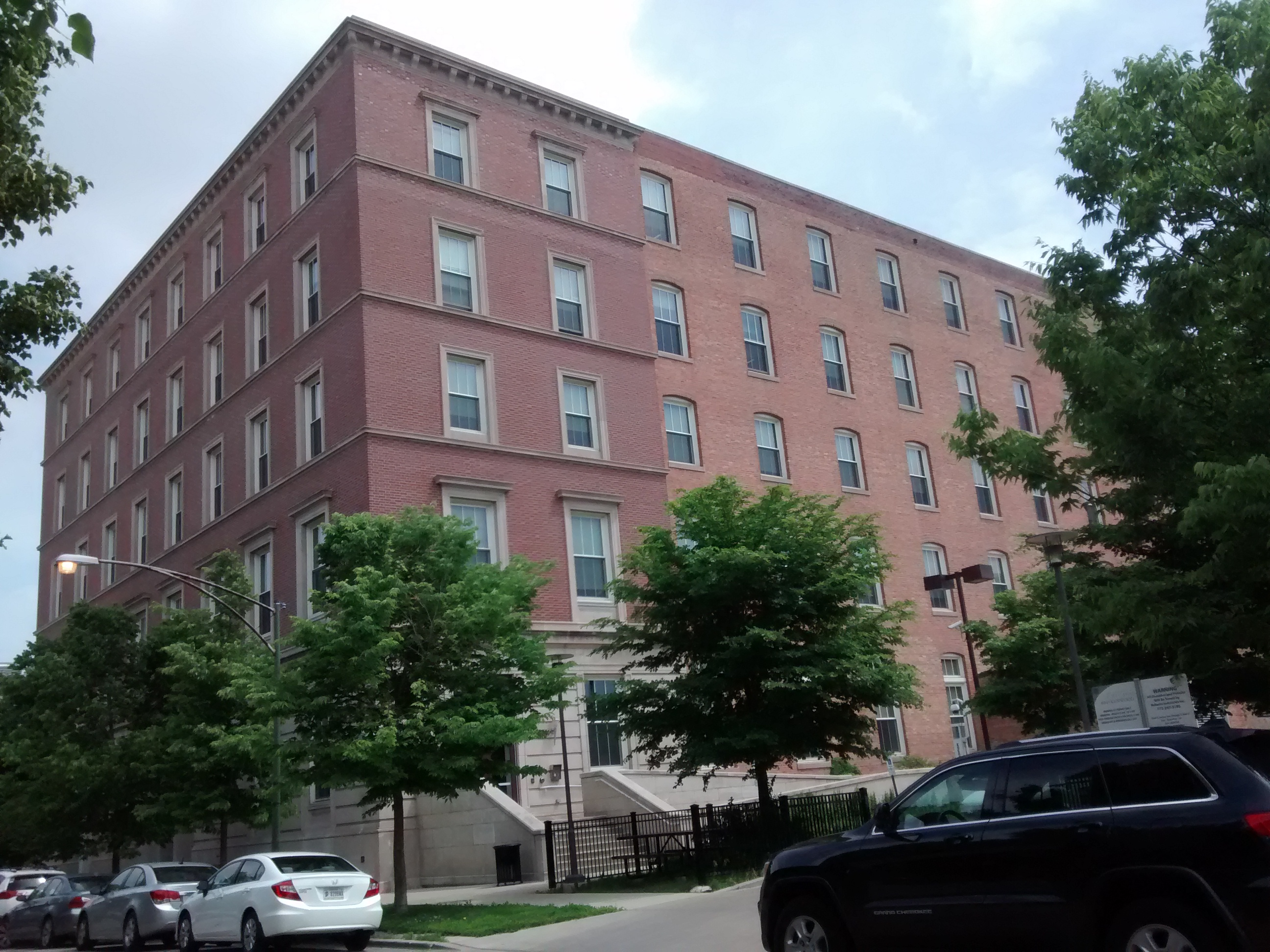 6045 S. Kenwood Ave., Chicago, IL, location of the Toyota Technological Institute at Chicago.